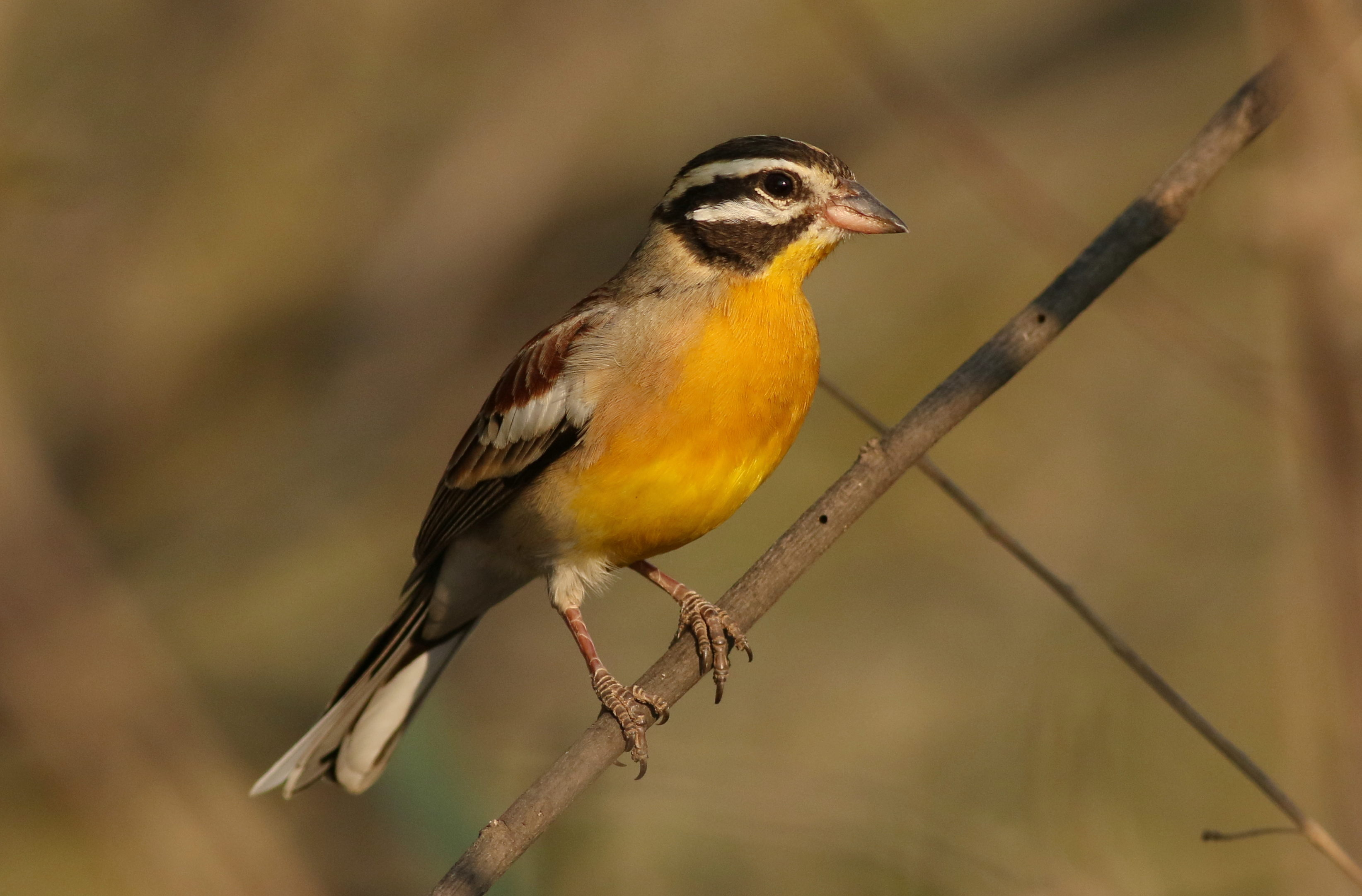 Golden-breasted bunting, Emberiza flaviventris, at Pilanesberg National Park, Northwest Province, South Africa